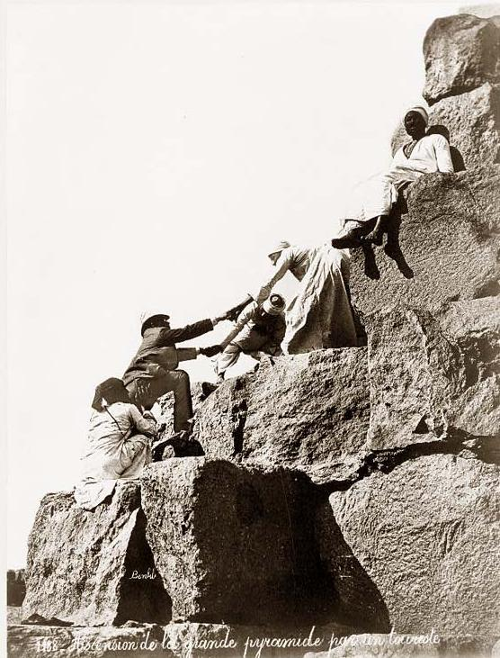 Egypt 1875: Tourists receiving help from Egyptians to ascend the "Big Pyramide". Description given at the source: "(...) photo of Ascension de la grande pyramide par un touriste / Bonfils. It was made in 1875 by Bonfils, Félix, 1831-1885. The illustration documents Tourist being helped up the great pyramid by Egyptian men." (text from same source)